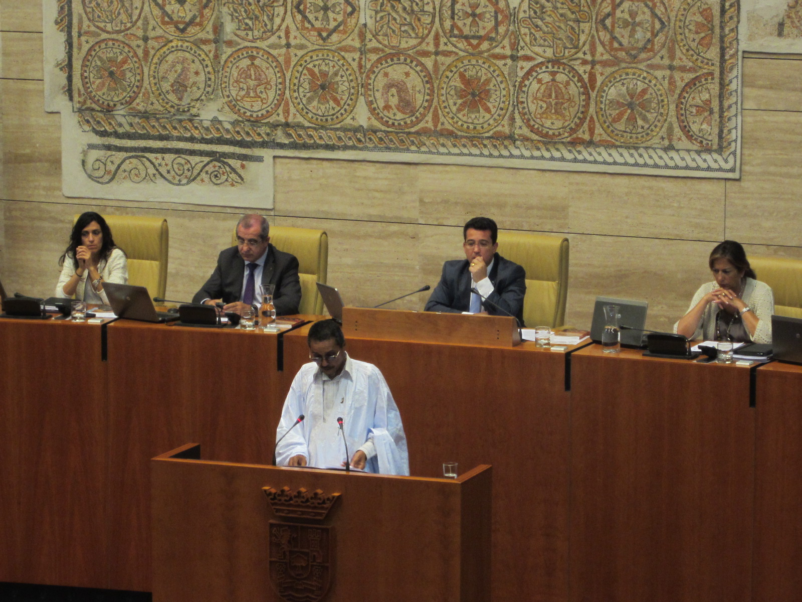 Current speaker and president of the Sahrawi National Council Khatri Adduh at the Parliament of Extremadura, 26 July 2012.